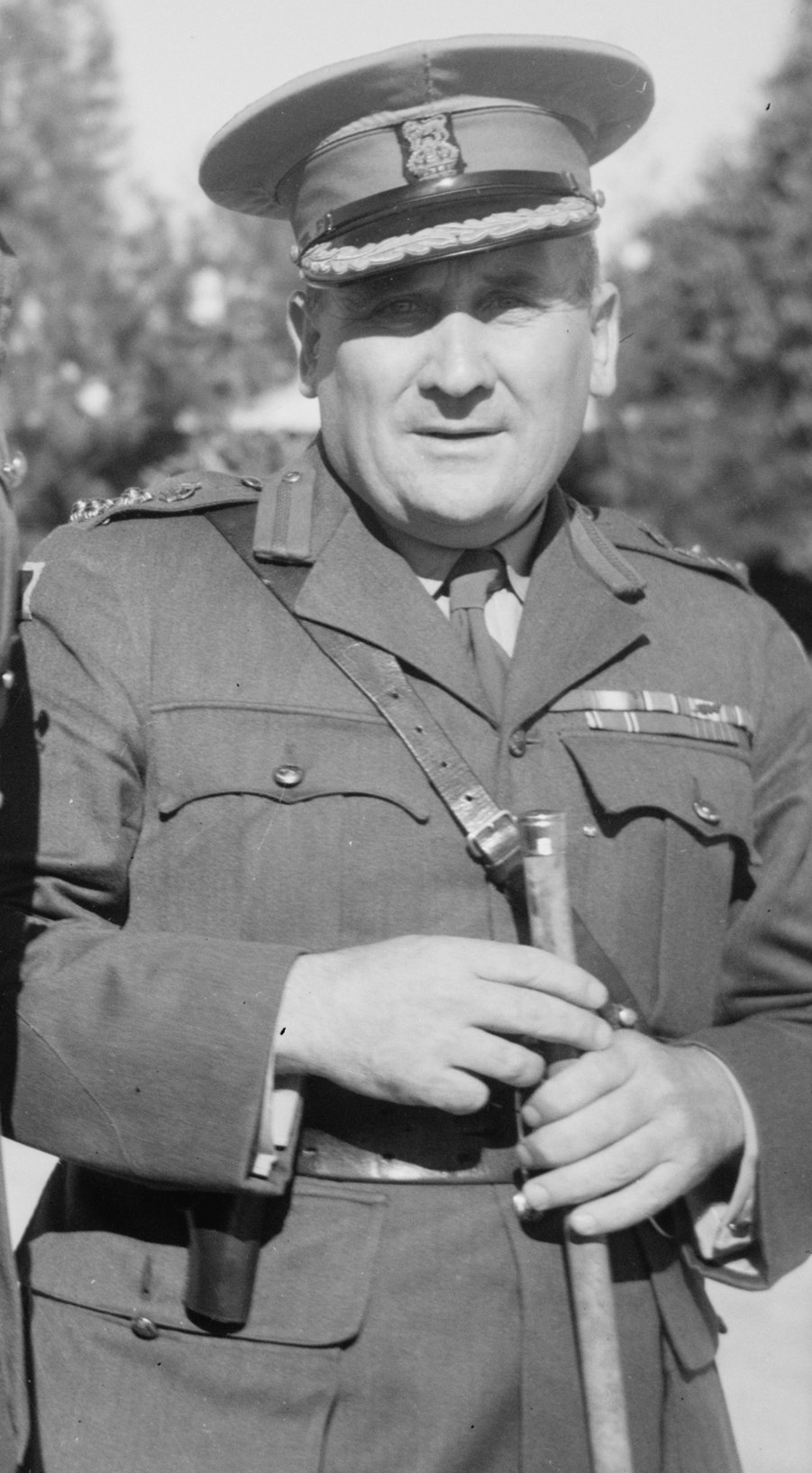 Arthur Samuel Allen in Palestine in February 1940, during a visit by Anthony Eden, British Secretary of State for Dominion Affairs